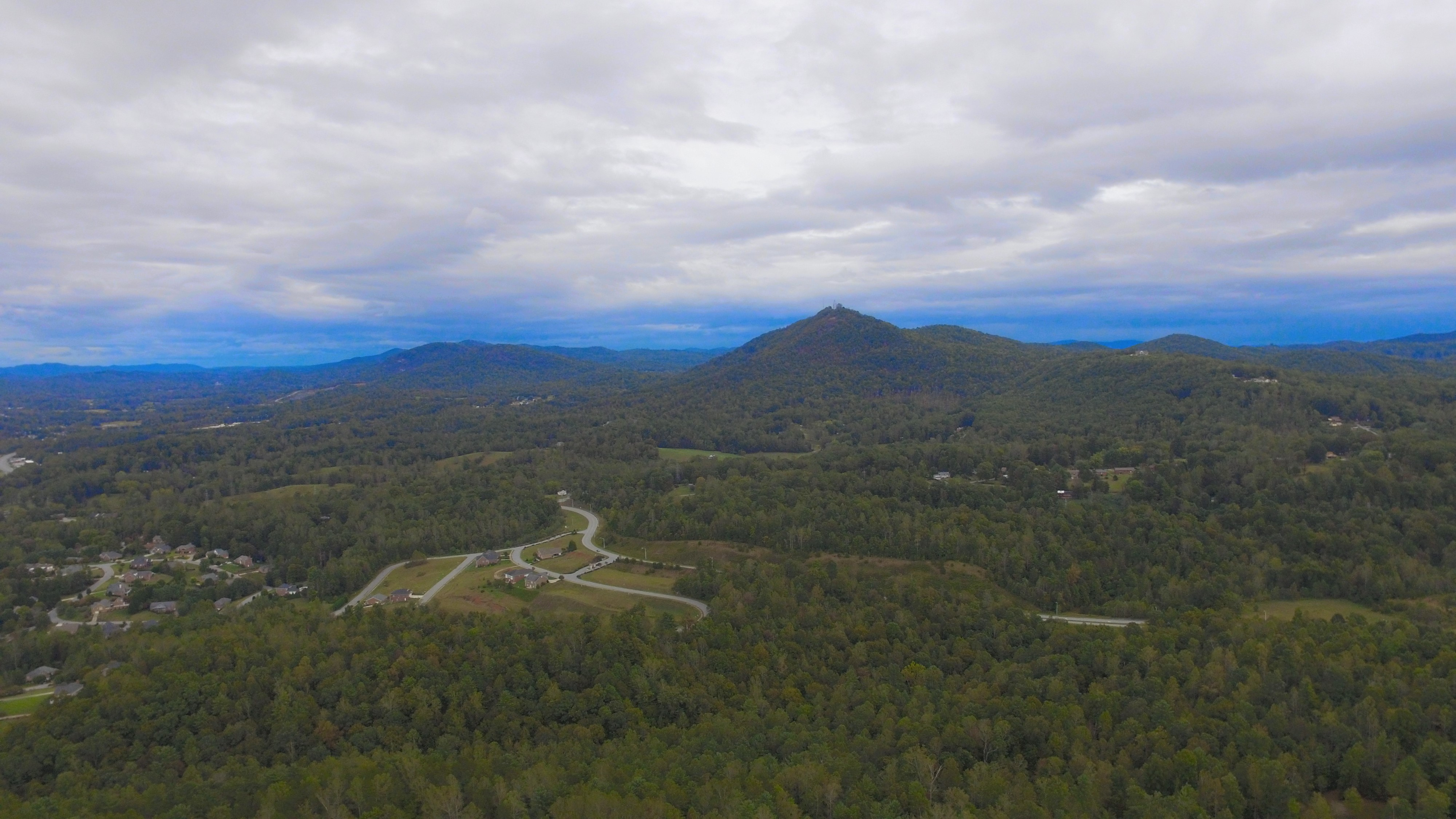 Above the Broyhill walking park looking towards Hibriten Mountain.